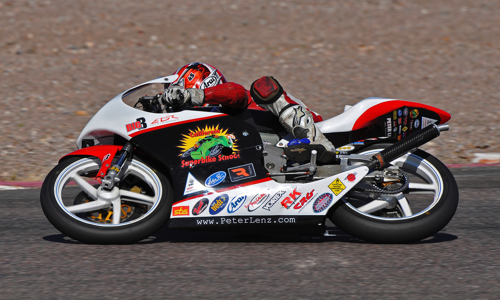 Peter Lenz at Firebird International Raceway on Februrary 28th, 2009. Peter went on to set a track record.